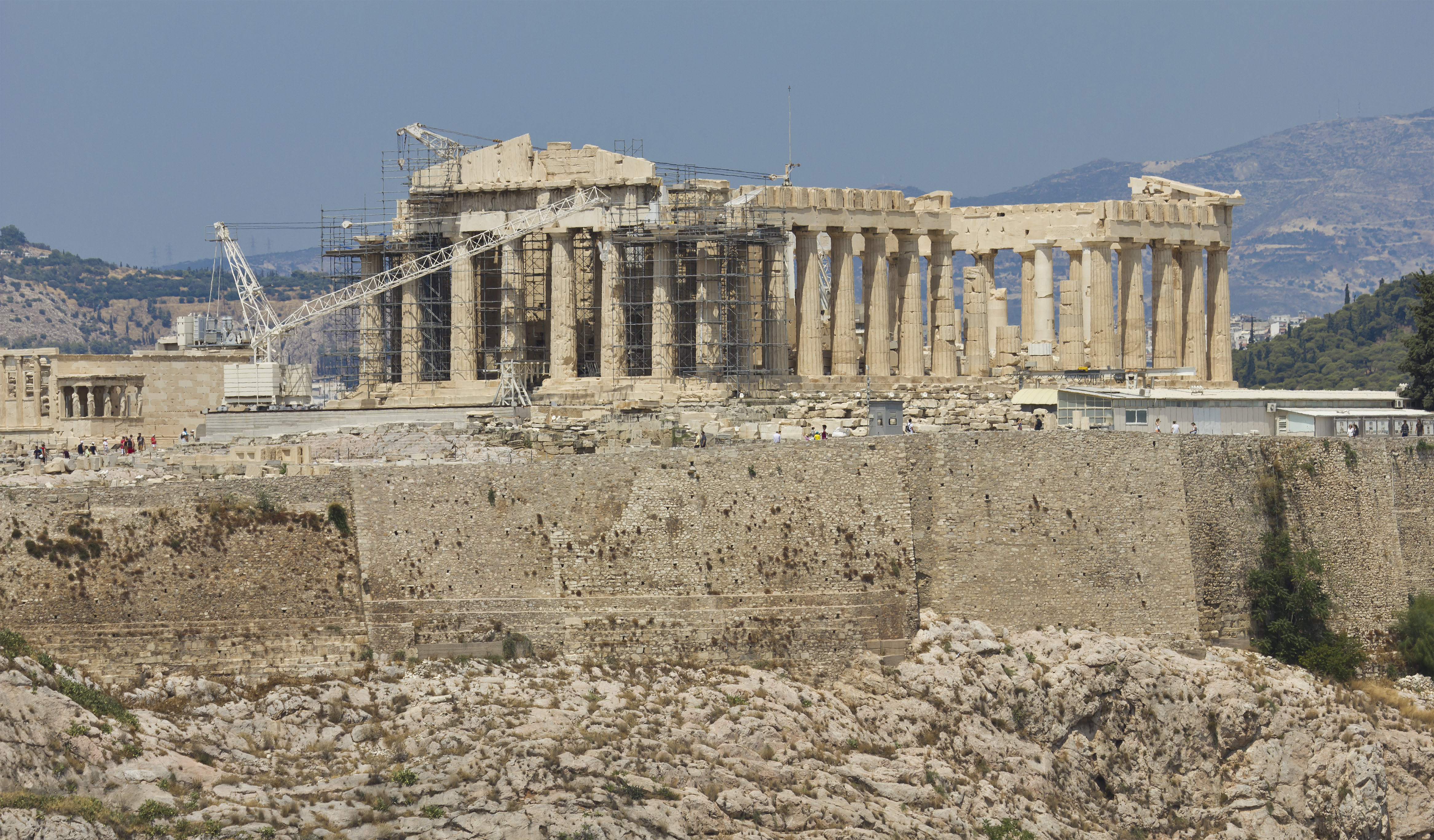 View from Philopappos Hill in Athens (Attica, Greece) — Acropolis of Athens